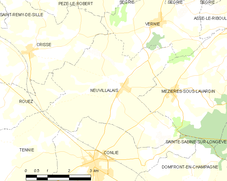 Map of French municipality